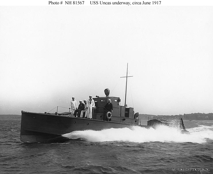 United States Navy patrol boat USS Uncas (SP-689) just after completion